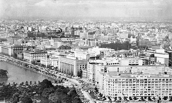 View of Marunouchi circa 1960